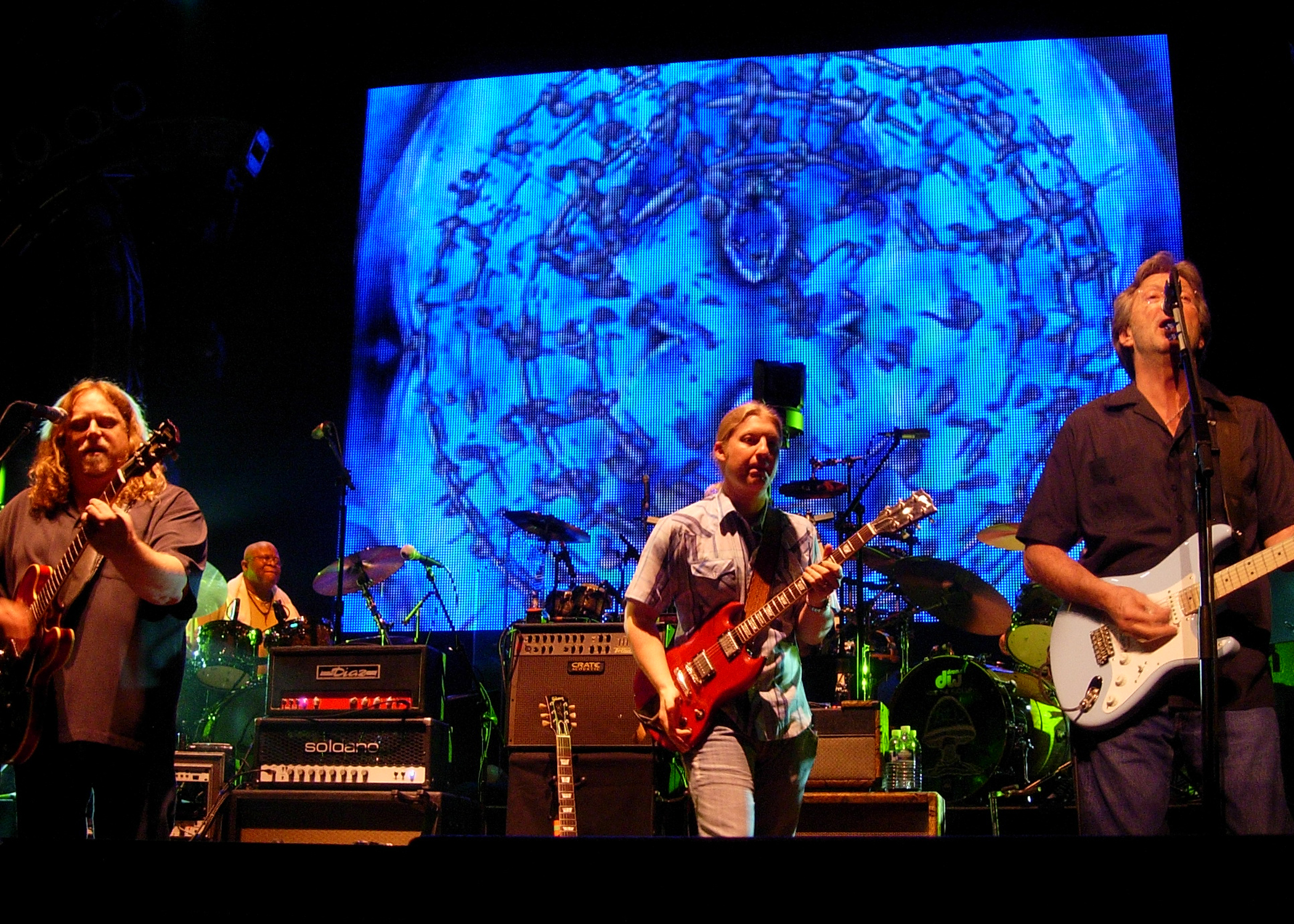 Last evening there was magic at the Beacon Theater in New York City. Eric Clapton performed songs from Layla and Other Assorted Love Songs with The Allman Brothers Band. Set List: 1. Little Martha (Oteil Burbridgesolo on bass) 2. Mountain Jam Part 1 3. Trouble No More 4. Midnight Rider 5. Forty-Four Blues (with Danny Louis on piano) 6. Wasted Words 7. Gambler's Roll 8. Ain't Wastin' Time No More 9. Mountain Jam Part 2 Set II 10. Melissa 11. Leave My Blues at Home 12. No One To Run With 13. Key To The Highway (with Eric Clapton on guitar & vocals) 14. Stormy Monday (with Eric Clapton on guitar) 15. Dreams (with Eric Clapton on guitar) 16. Why Does Love Got To Be So Sad? (with Eric Clapton on guitar) 17. Little Wing (with Eric Clapton on guitar & vocals) 18. In Memory of Elizabeth Reed (with Eric Clapton on guitar) Encore 19. Layla (with Eric Clapton on guitar & vocals, Danny Louis on piano)